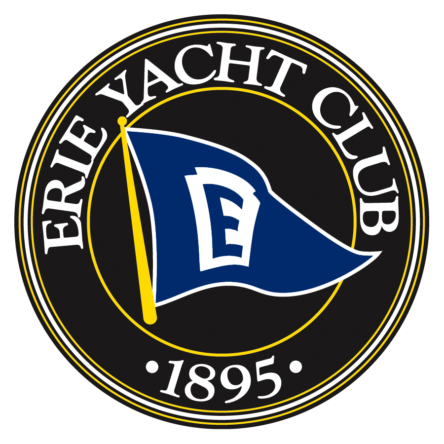 Club Logo